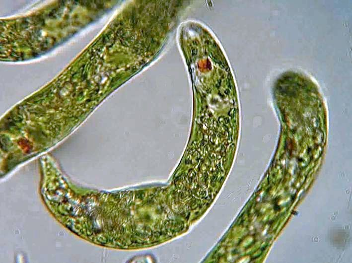 Euglena, collected in Wakefield, Quebec.